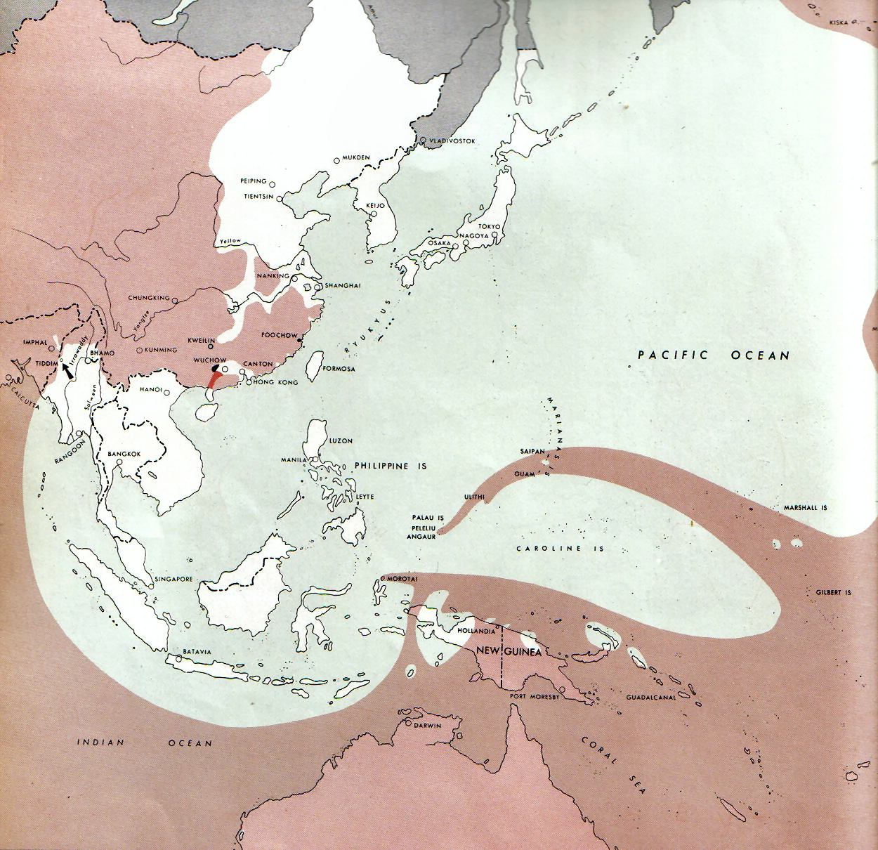 Map of the front against Japan as of 15 Oct 1944: This map is taken from the source "Atlas of the World Battle Fronts in Semimonthly Phases to August 15th 1945: Supplement to The Biennial report of The Chief of Staff of the United States Army July 1, 1943 to June 30 1945 To the Secretary of War". (See Cover, Forward and Map details)